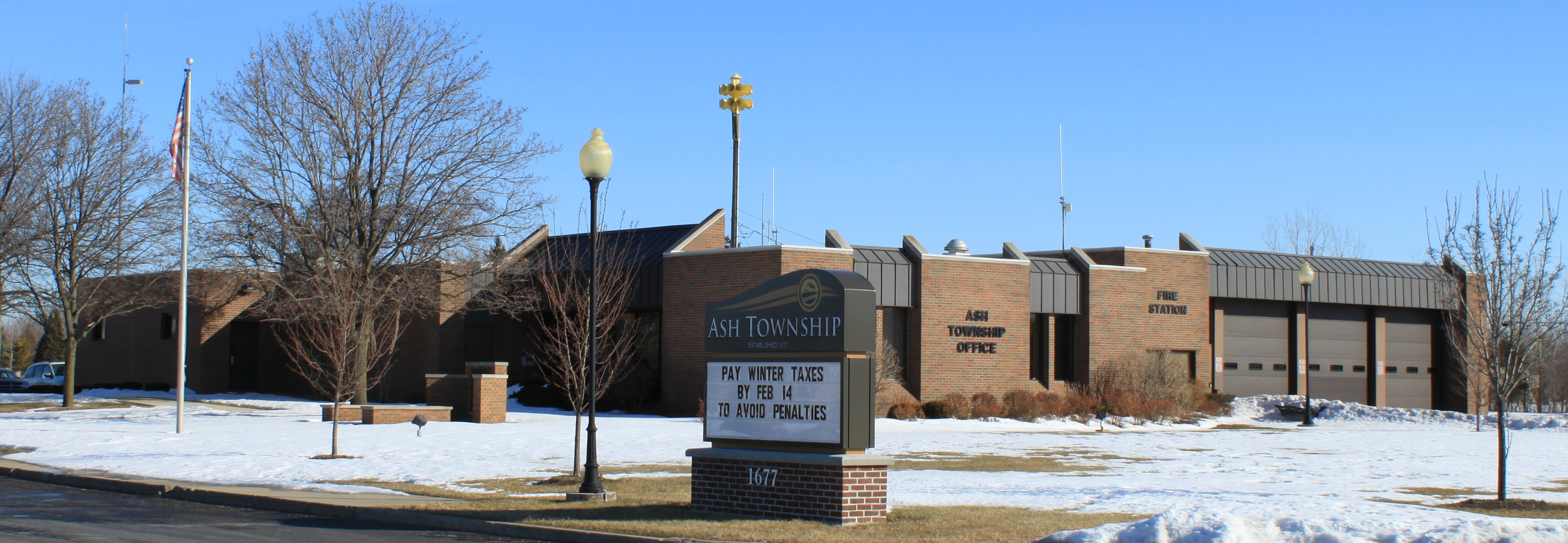 Ash Township Office and Fire Station, 1677 Ready Road, Carleton, Michigan